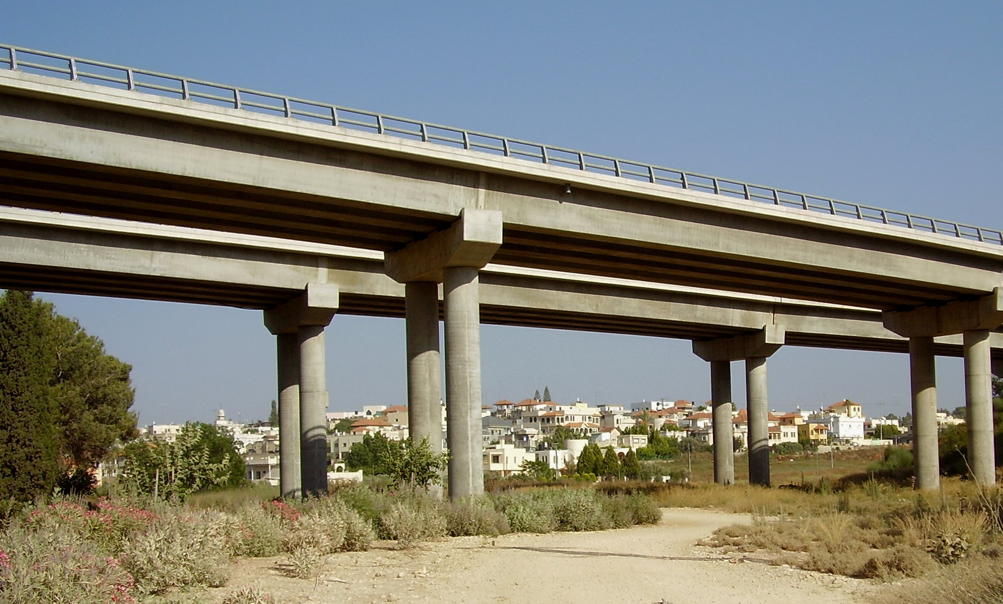 The highway 6 (Israel) bridge over the Narbeta wadi, with the Israeli-Arab village Meiser in the background